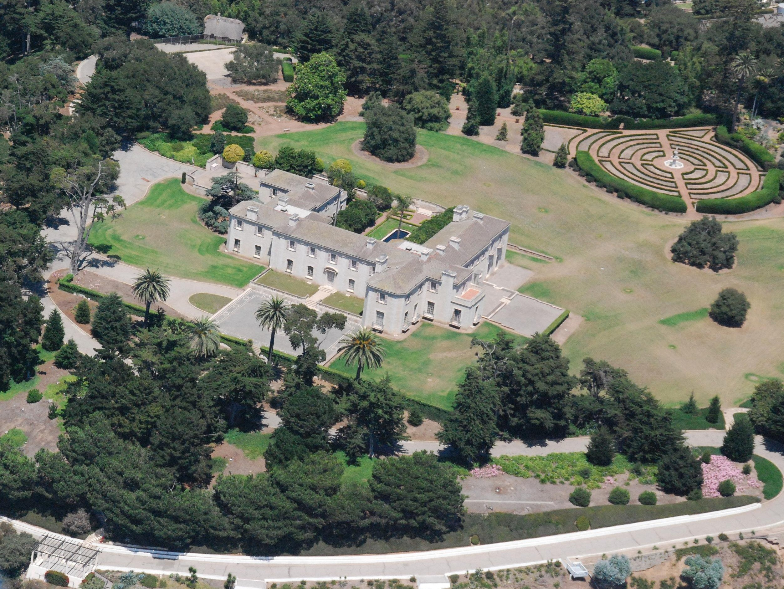 Aerial image of Bellosguardo in Santa Barbara, California